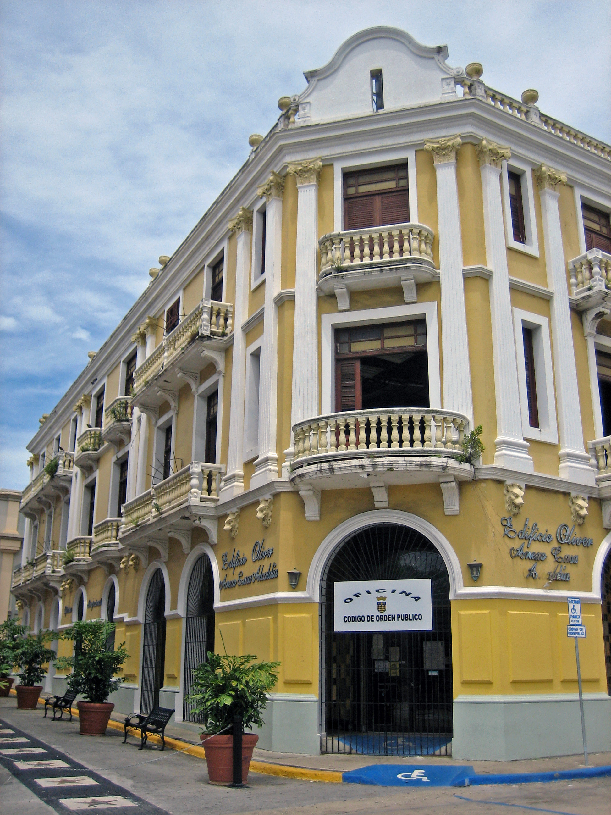 Edificio Casa Oliver, Anexo Casa Alcaldía, Arecibo, Puerto Rico. It was listed on the U.S National Register of Historic Places in 1986.